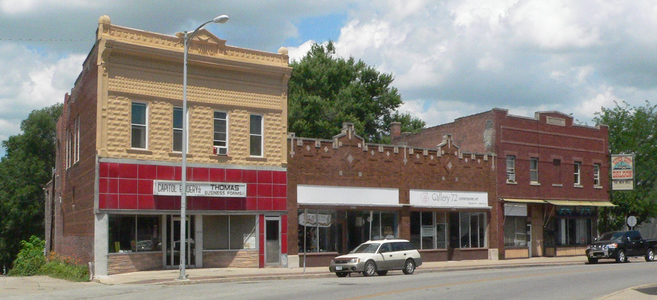 Buildings on north side of 1800s block of Vinton Street in Omaha, Nebraska. From left to right are the two-story Peter Wiig building, 1810-1812 Vinton; the one-story C. B. Schleicher building at 1806-1808 Vinton; and the two-story William L. Elsasser Bakery building at 1802-1804 Vinton. The three buildings are conributing properties in the Vinton Street Commercial Historic District, listed in the National Register of Historic Places.